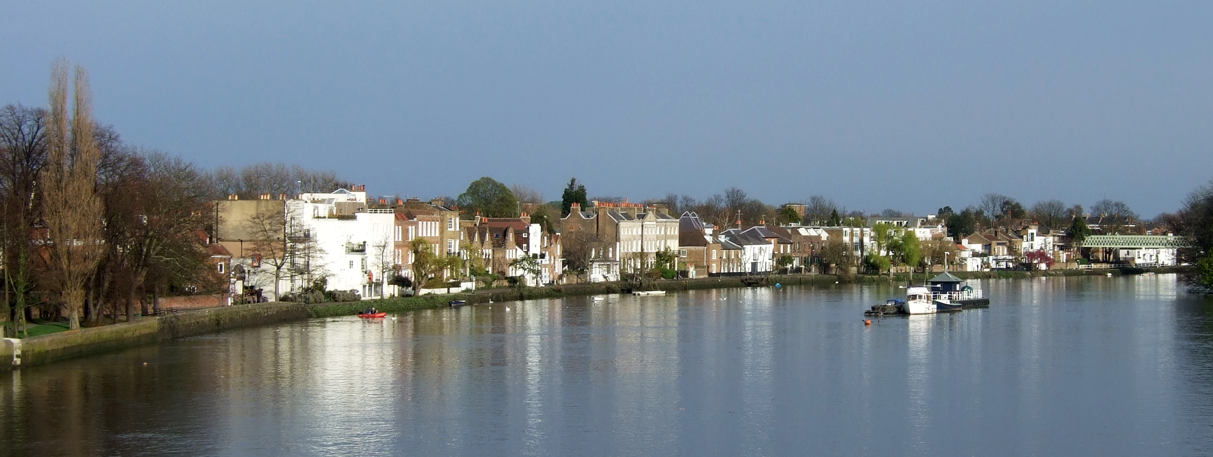 Strand-on-the-Green, Chiswick, Middlesex, looking downstream (East) from Kew Bridge. Oliver's Island is on the right in front of the railway bridge